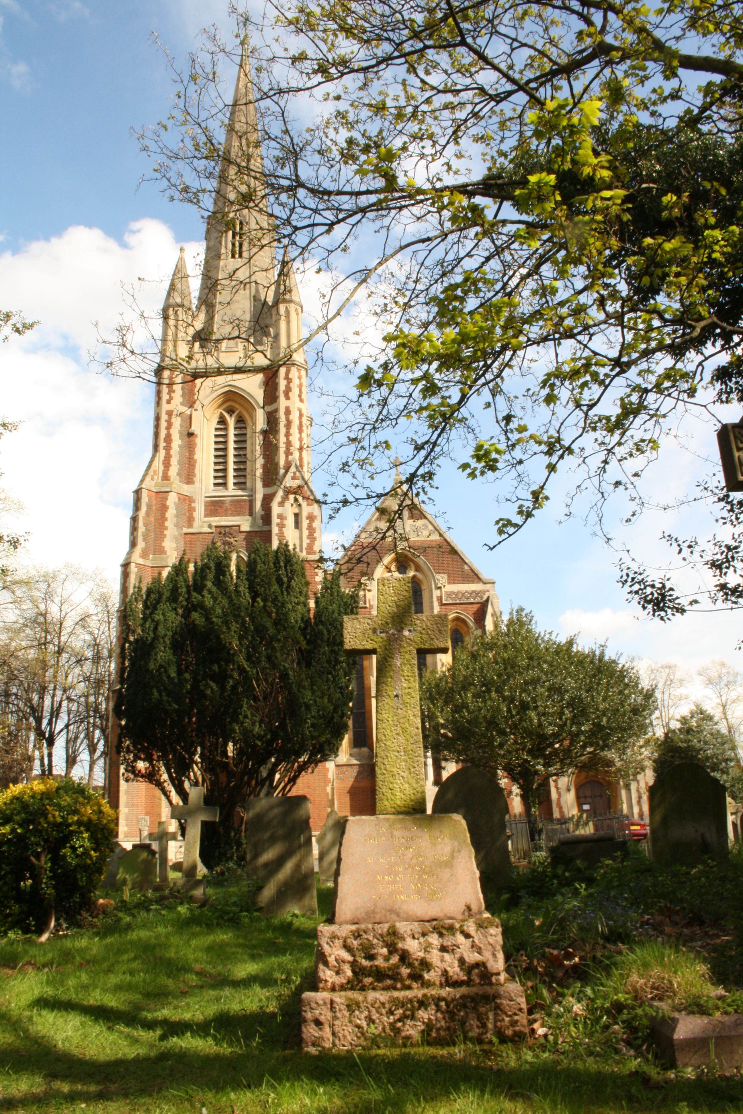 One of the Churches in Slough from back side with nice cemetery